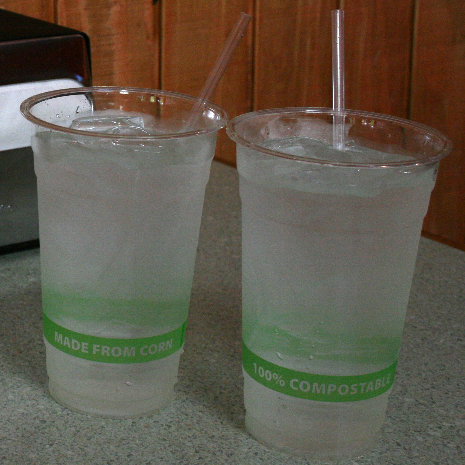 Biodegradable plastic cups in use at Chubby's Tacos in Durham, North Carolina.